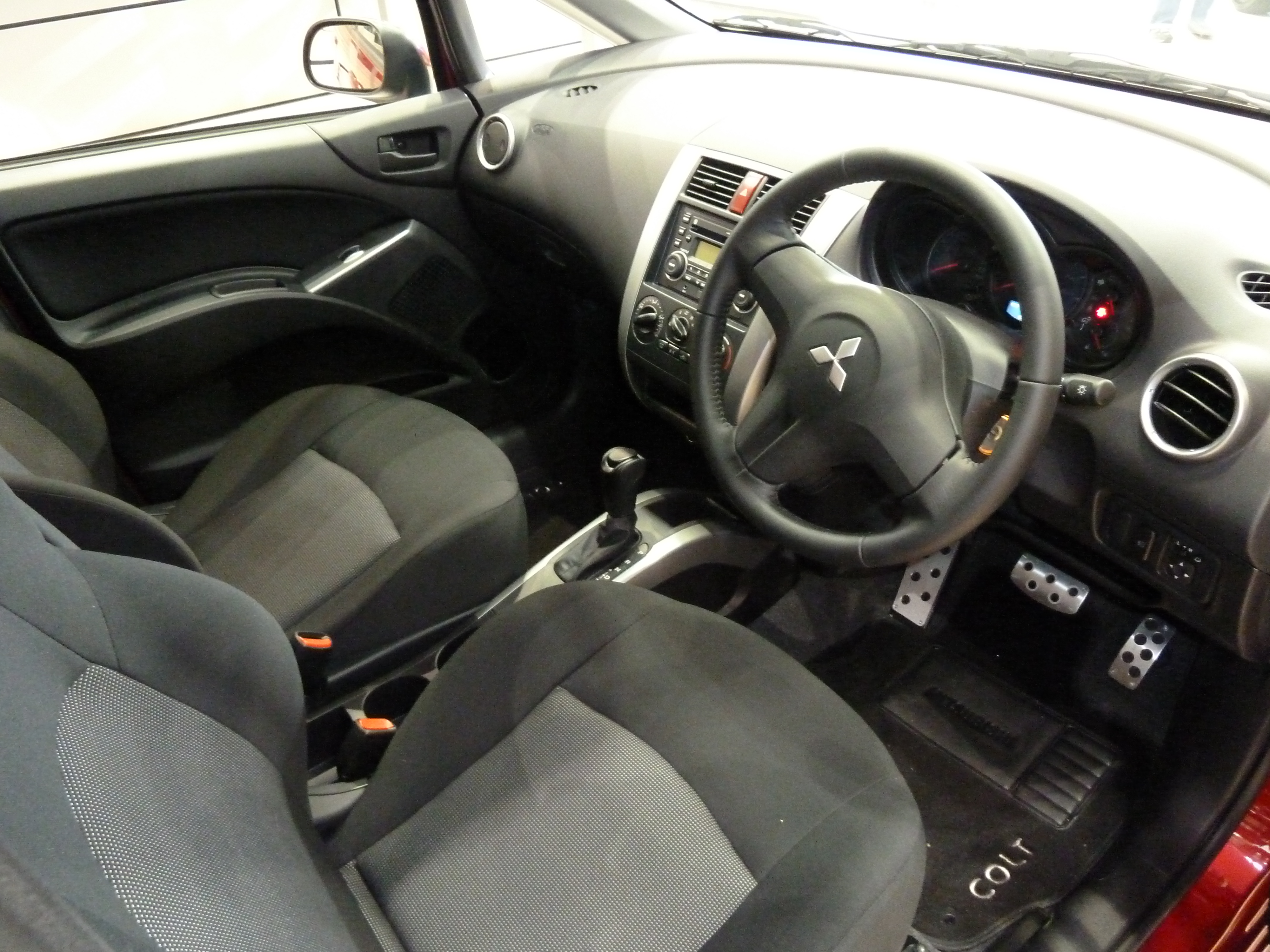 2010 Mitsubishi Colt (RG) VR-X 5-door hatchback. Photographed at the 2010 Australian International Motor Show, Sydney, New South Wales, Australia.